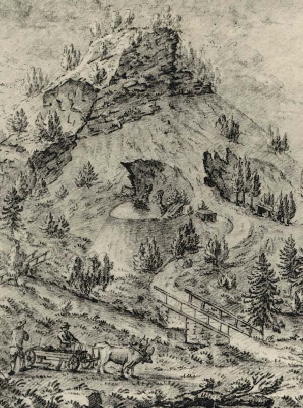 Drawing of south-eastern end of the south schwedish mountain "Taberg"